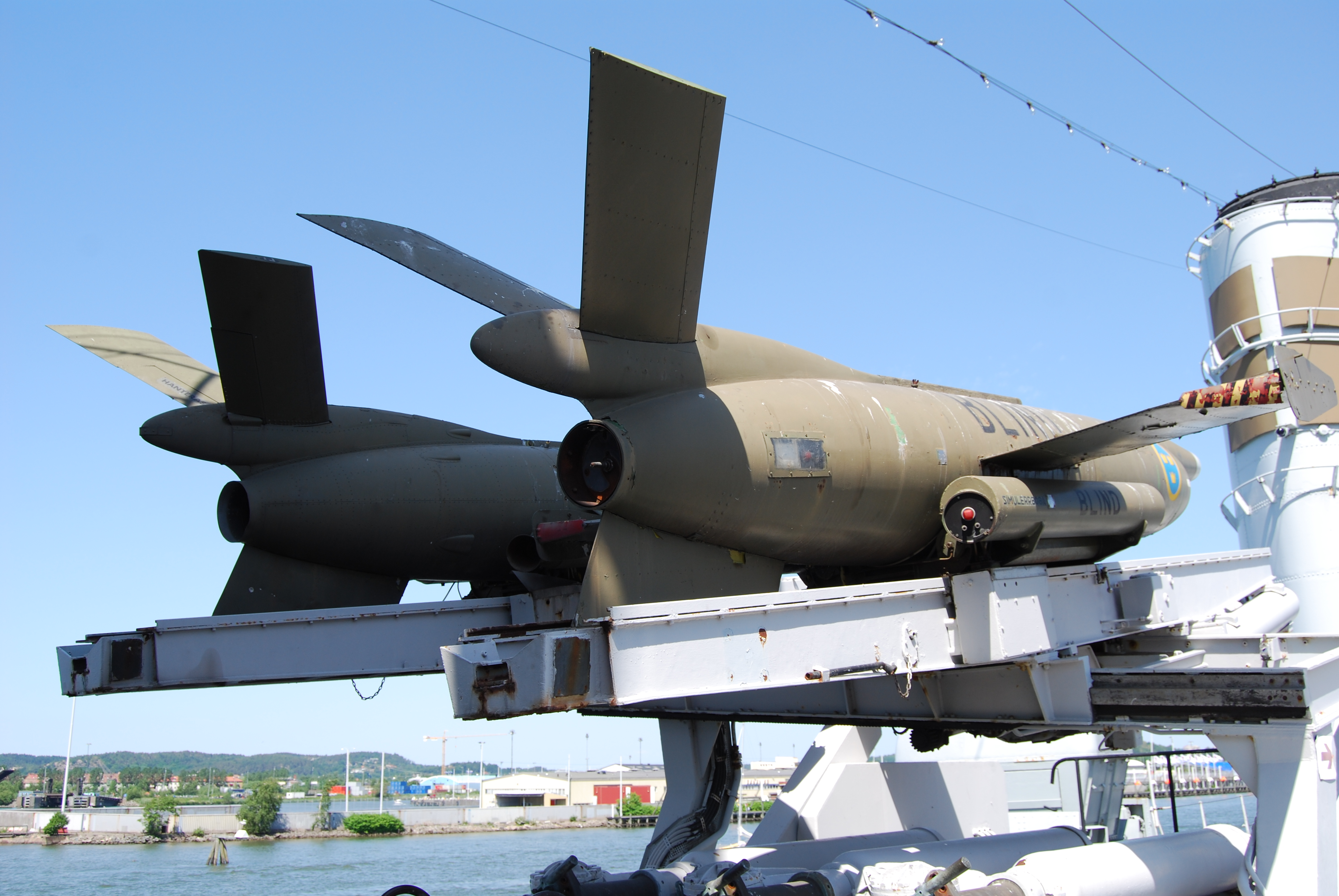 Missile launchers on Swedish destroyer HMS Småland.